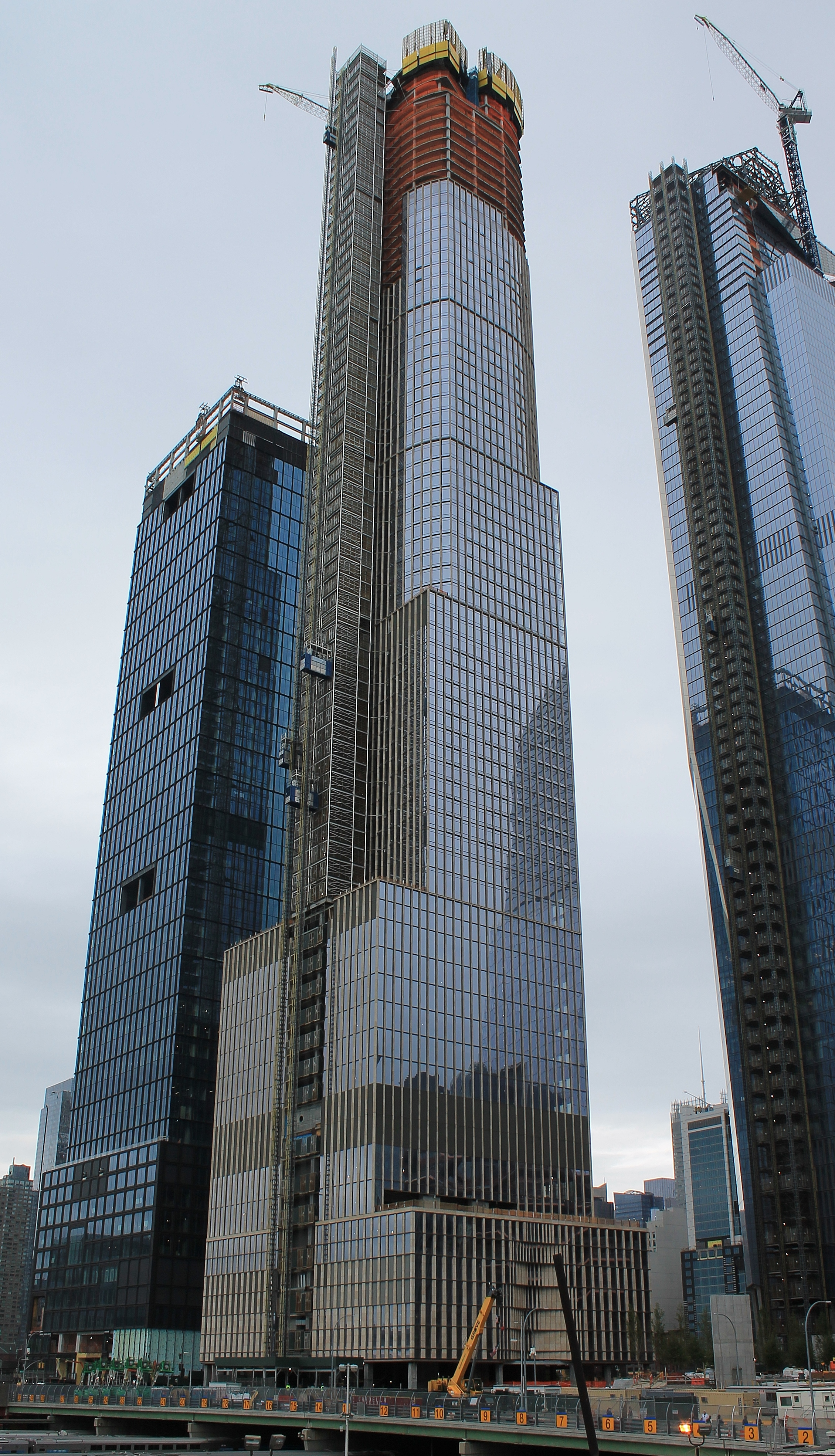 35 Hudson Yards under construction, 27 June 2018.